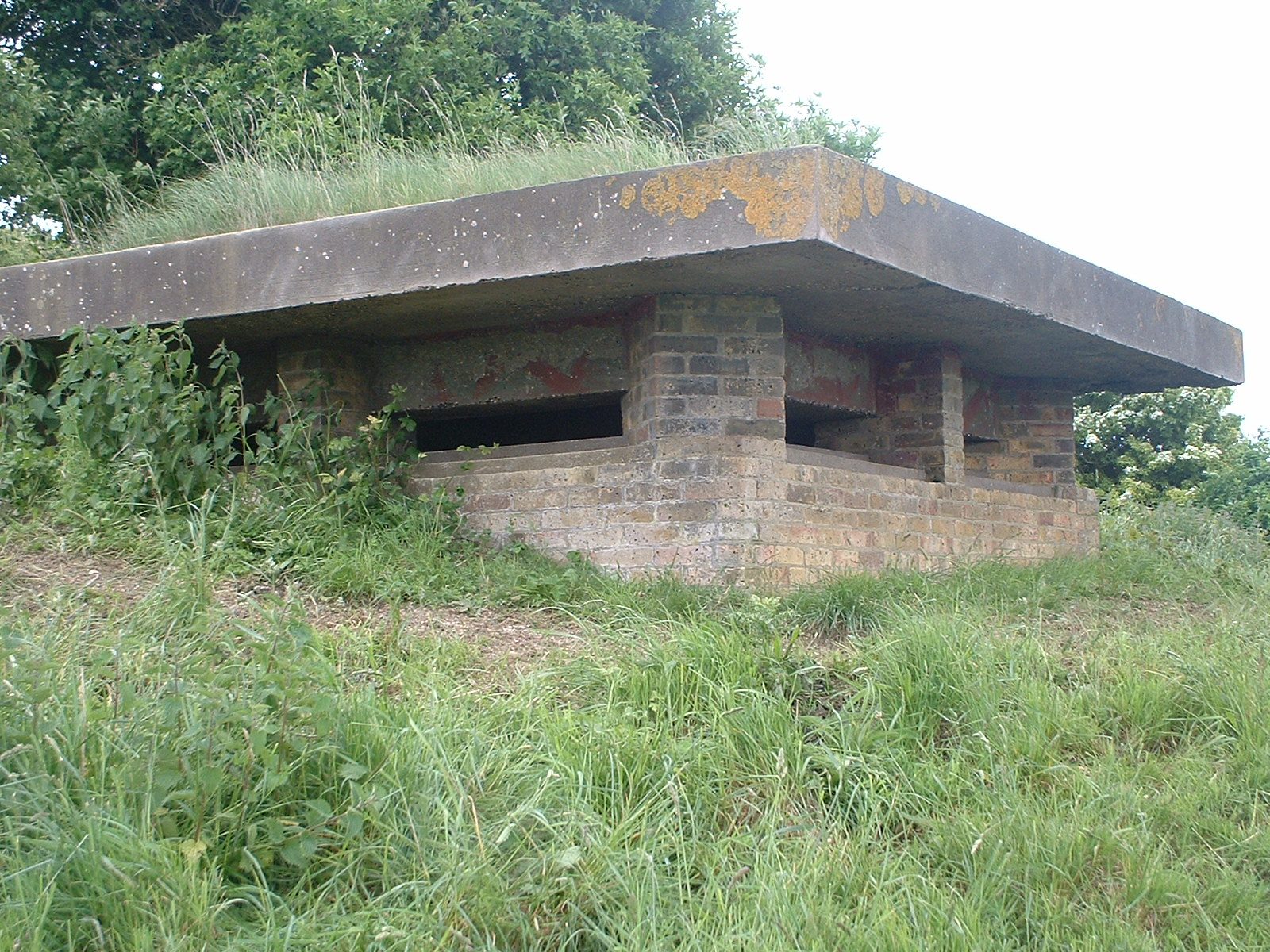 Section drawing of pillbox of similar type Pillbox - Type Dover Quad, Western Heights, Dover, OS reference TR292400 Easy access. Filled with rubble. Photographed by Gaius Cornelius on 01-Jun-06. OS reference TR292400